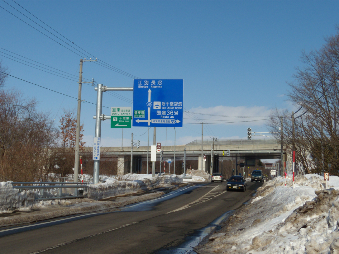 Chitose-Higashi Interchange (Dōtō Expressway) and Chuo Interchange (Route 337 Route 337 New Chitose Airport bypass) Chitose city, Hokkaidō, Japan. The direction in the photo is as follows: observer's left(west): Chitose-Higashi Interchange (Dōtō Expressway Sapporo/Tomakomai/Yūbari direction) observer's front(north): Route 337 main route (Naganuma direction) observer's right(east): Chuo Interchange (New Chitose Airport direction) observer's back(south): Route 337 main route (Chitose direction) Note: Resized version in Sinryow's web sites(*) is not released under GFDL/CreativeCommons, unless it is gained by converting GFDL/CreativeCommons-released picture. (*) = and